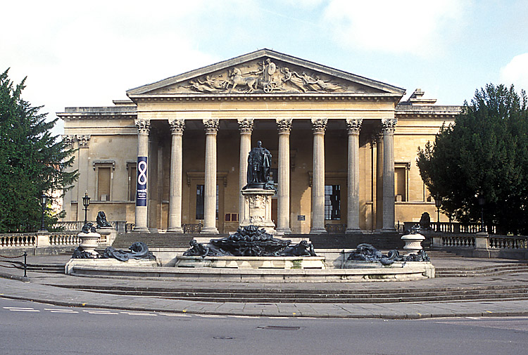 The Victoria Rooms in Bristol, built in 1842, and now part of the University of Bristol. Photograph taken in May 2003 by Robert Brewer (rbrwr) and released under the GFDL and cc-by-sa.